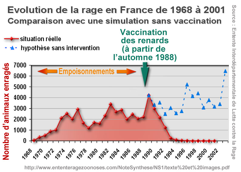 Graph showing the ineffectiveness of poisoning campaigns and fox trapping made ​​in France in the context of the fight against rabies (reappeared in the country in the 1960s ; 1968). The graph shows also the very large and rapid effectiveness of foxes vaccination campaigns started in 1988 (baiting vaccins from helicopters). Based on past trends and what was found in comparable countries that have not vaccinated blue dots show what would have probably produced (annual number of cases of rabies)